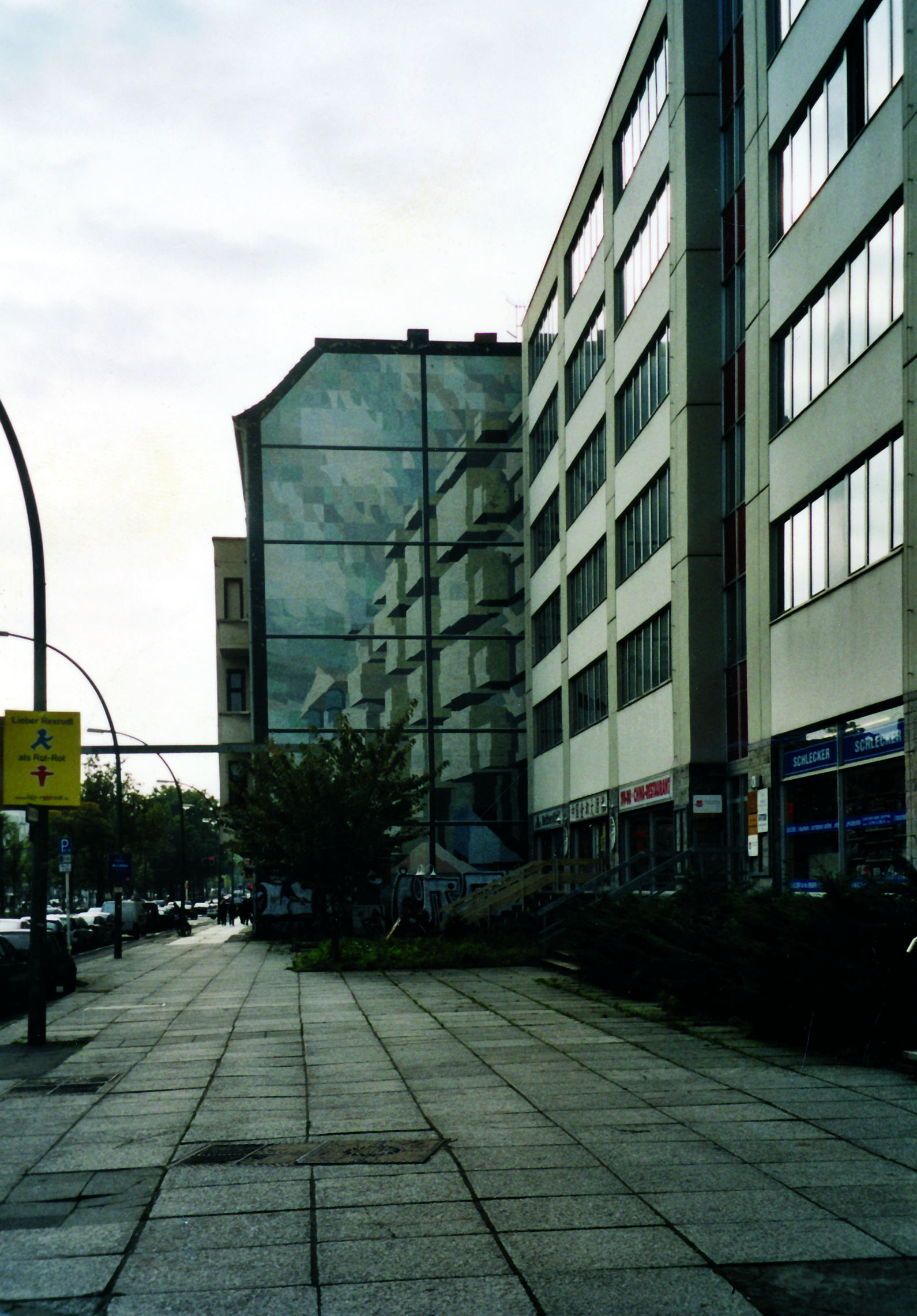 Warschauer Strasse Berlin/ Germany, fire wall/ fassade painting by Lutz Brandt 1979. Photo: Lutz Brandt